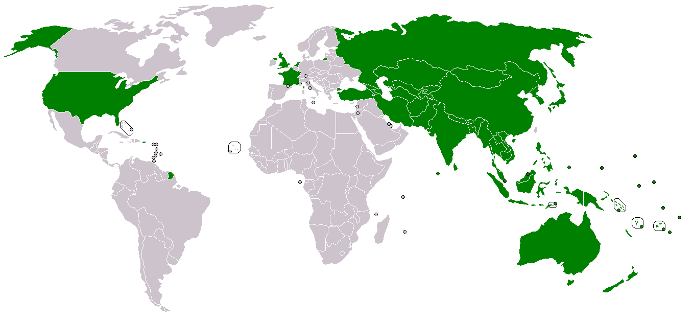 UN ESCAP members